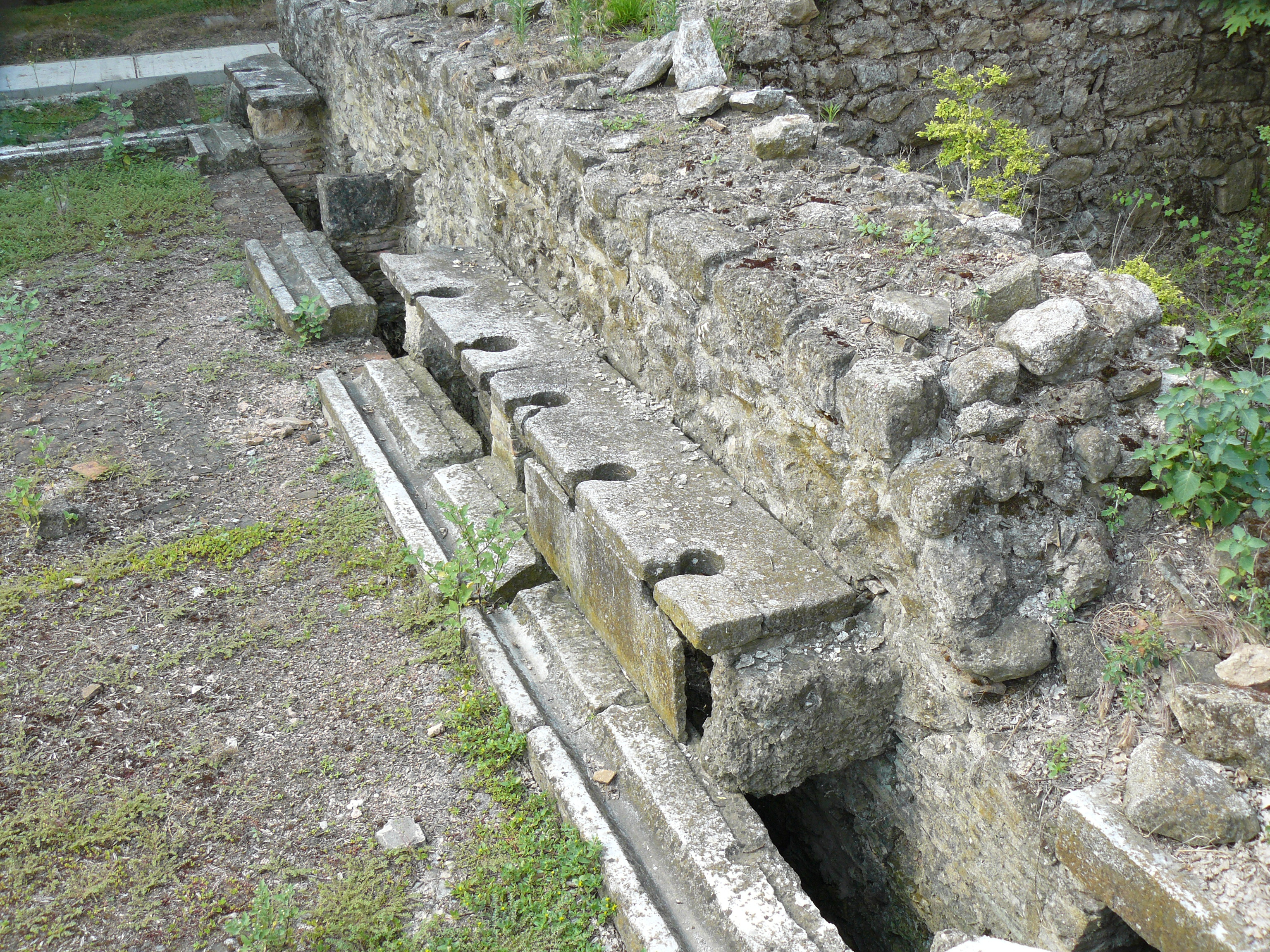 Marble toilet seats in ancient public toilets, Dion, Greece